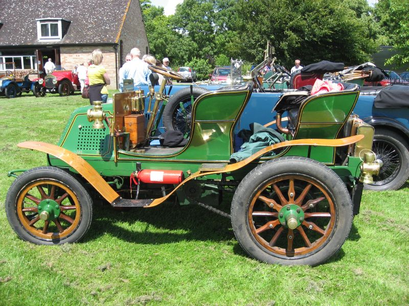 1900 Napier Double Phaeton2-cylinder 8-hpVCC Uffington Oxfordshire picnic 8 July 2007